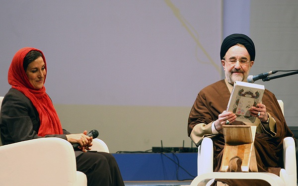 Annual celebration of the Chelcharagh magazine (22 8610030051 L600)for more in Persian